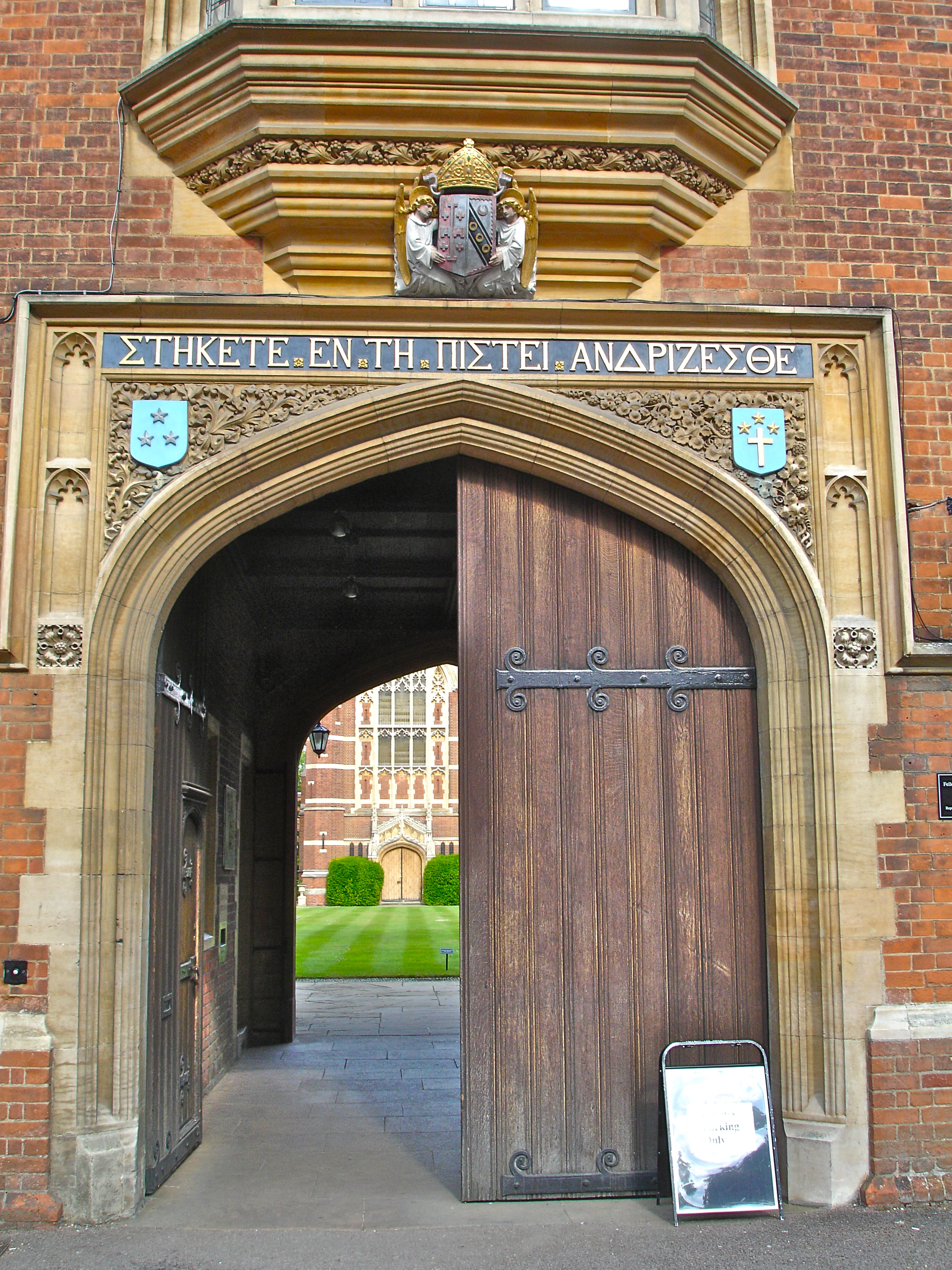 Photograph of Main Gate of Selwyn College, Cambridge.